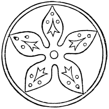 Fig. 490.—From the seal of Robert Fitz-Pernell, Earl of Leicester, d. 1206. It is not clear whether this is intended to be a cinquefoil or a pimpernel flower.